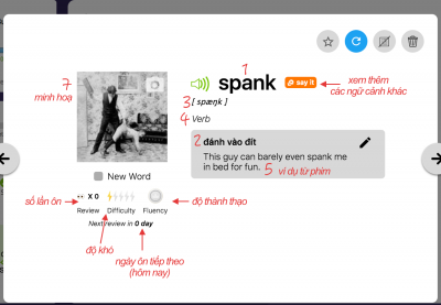 sample image for software use spaced repetition